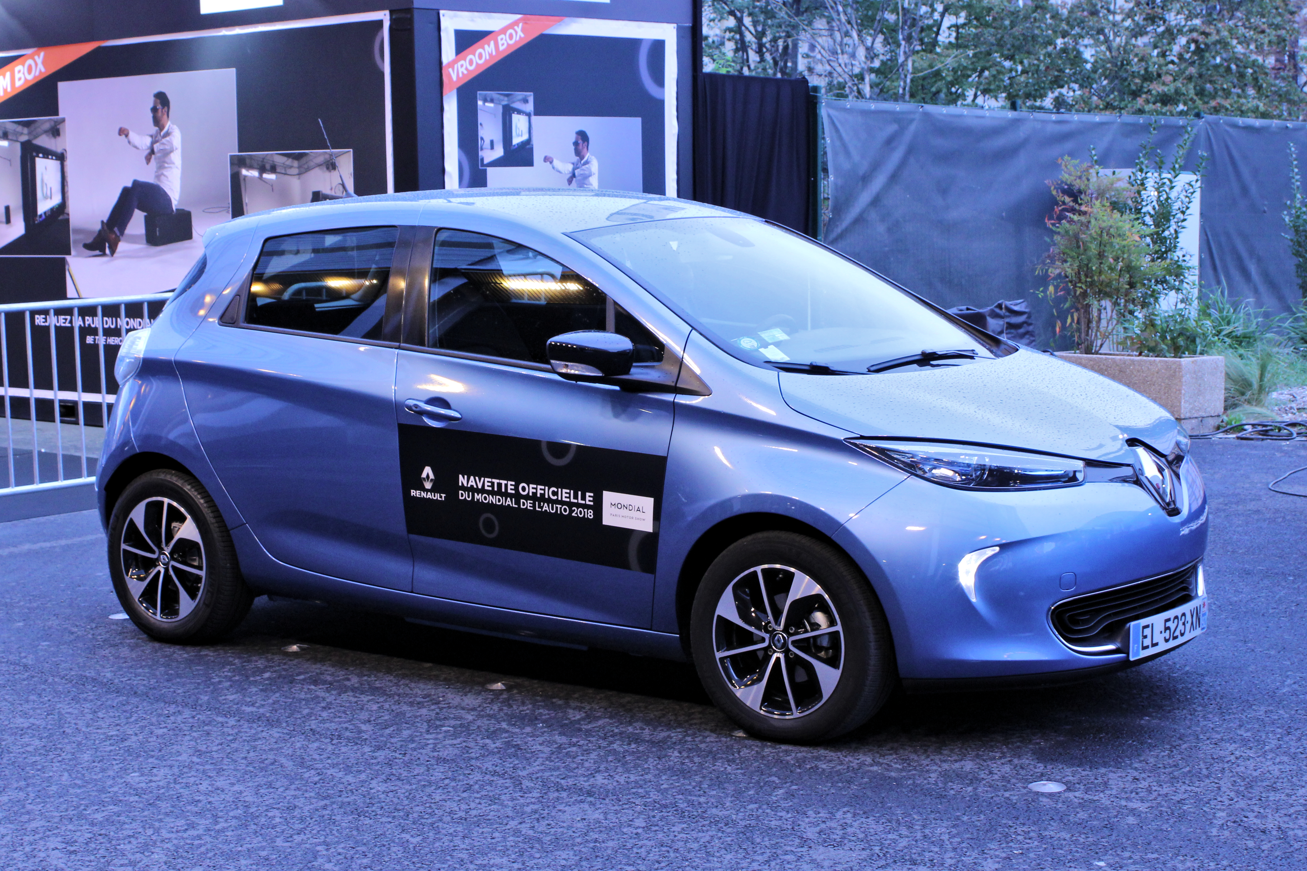 Renault Zoe at Paris Motor Show 2018